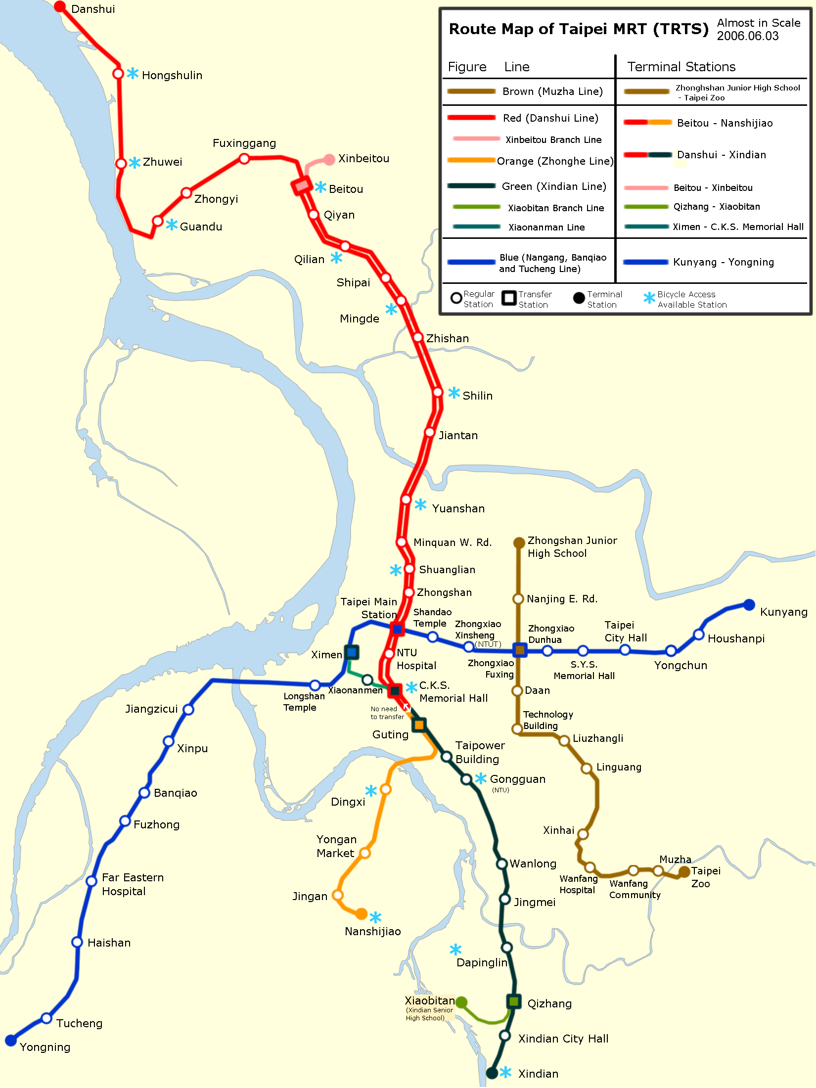 Recent operating route map of Taipei MRT